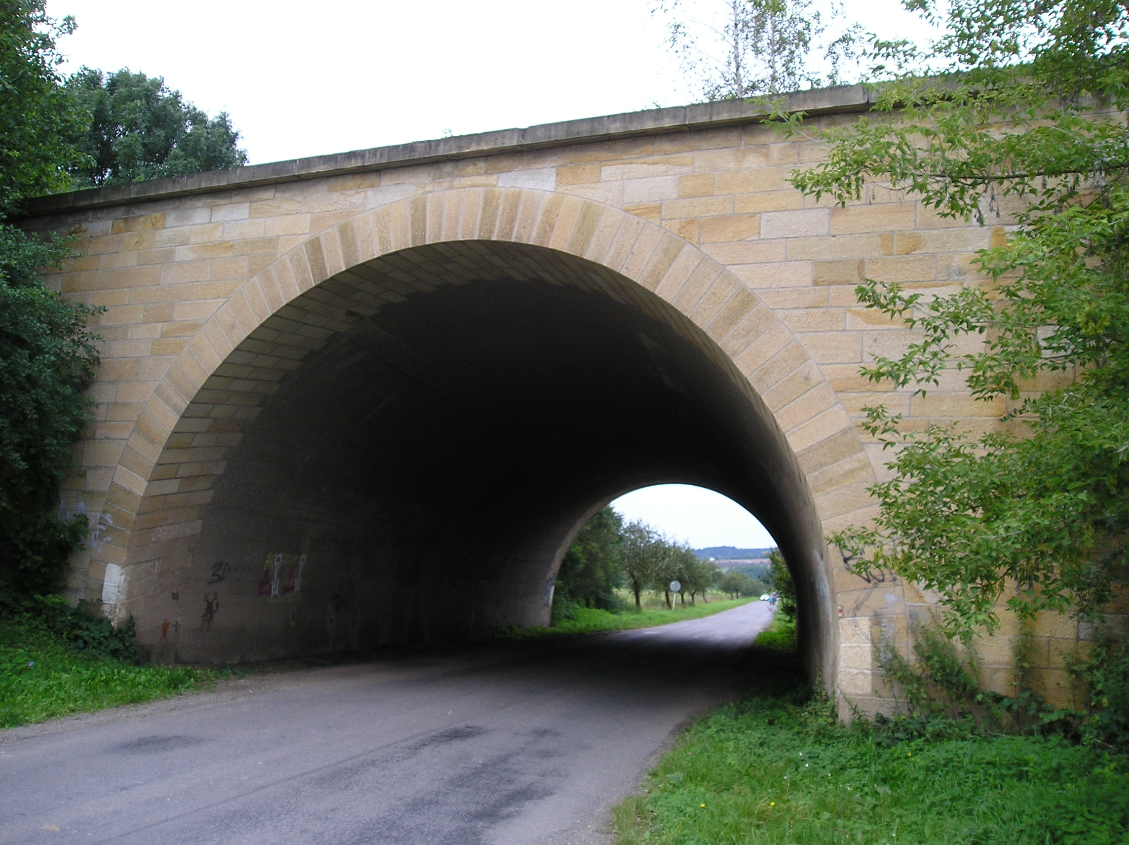 Jevíčko, Svitavy District, Czechia.